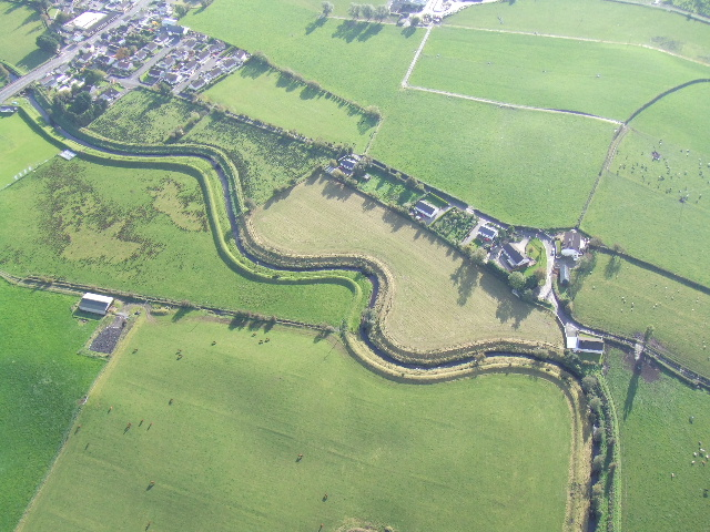 Ballymagorry This small stream meanders through Ballymagorry on its way to the Foyle